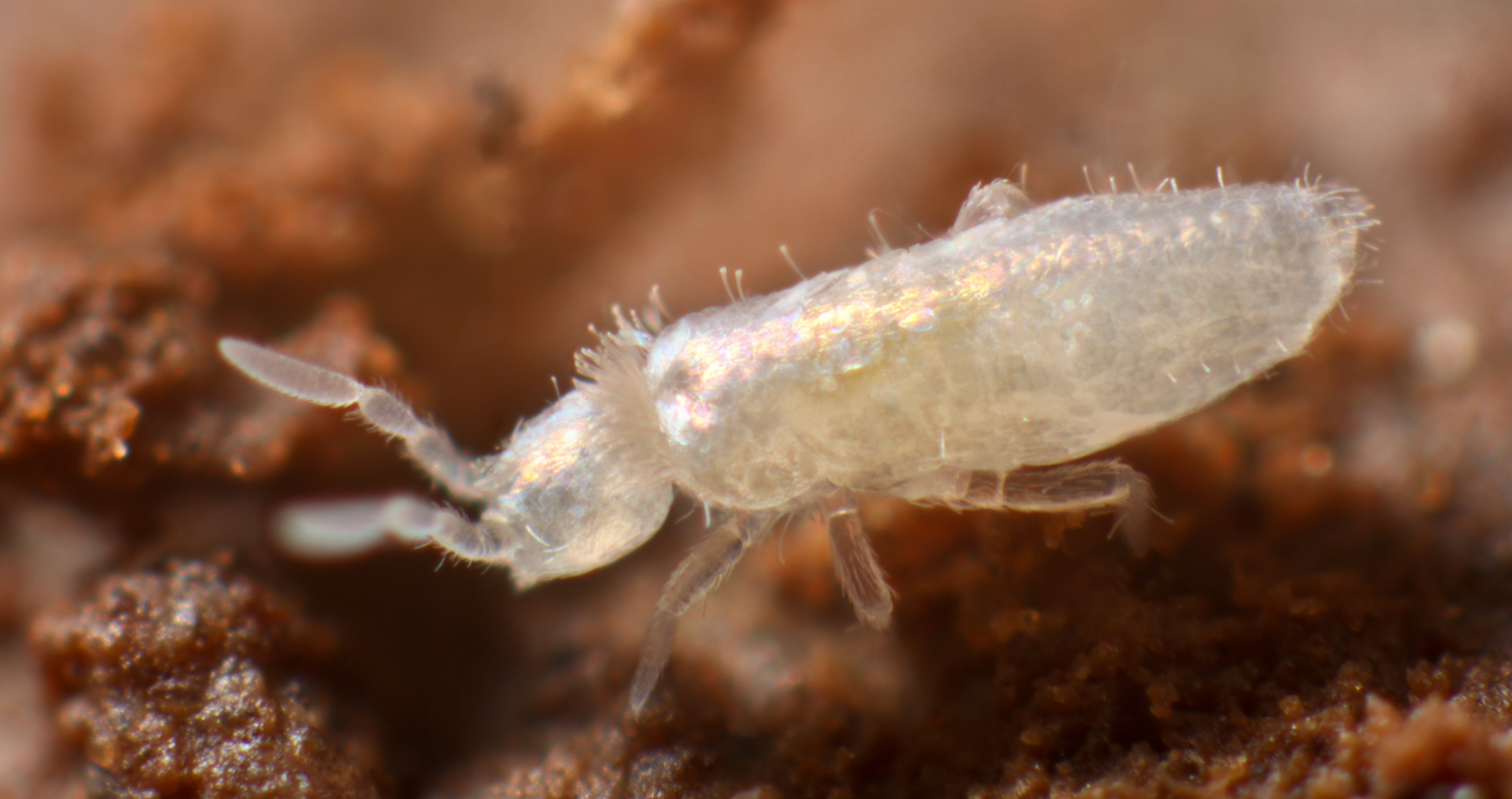 Possibly Pseudosinella immaculata from Compton Dundon, England, United Kingdom. Original description on Flickr: I think it is anyway. It's either that or P. decipiens and seeing as P. immaculata is so common, I'm plumping for that one. So there! Fast as anything so took hundreds of butt ends, speeding legs and blurred white. This first chap did let me do a wee bit of stacking first though so I should be grateful!